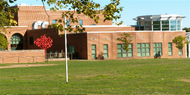 Clinton Avenue School, Fair Haven